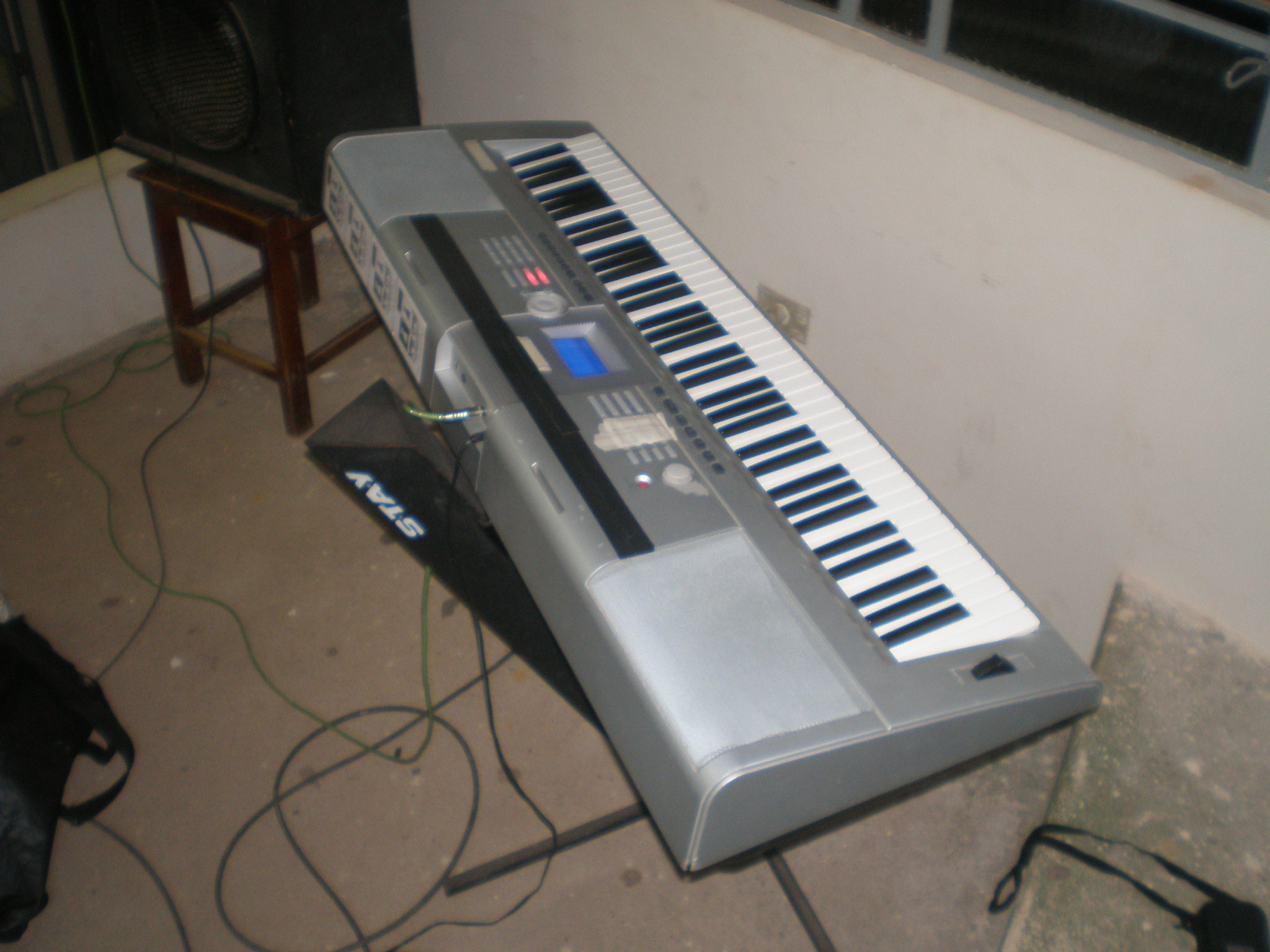 Synthesizers